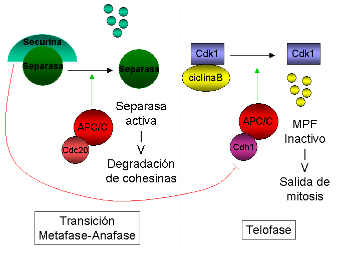 Scheme showing APC/C activity and regulation during mitosis.